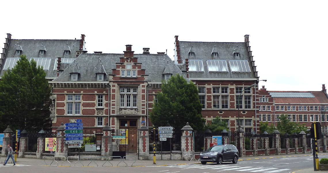 PNT (school in Tienen, Belgium)